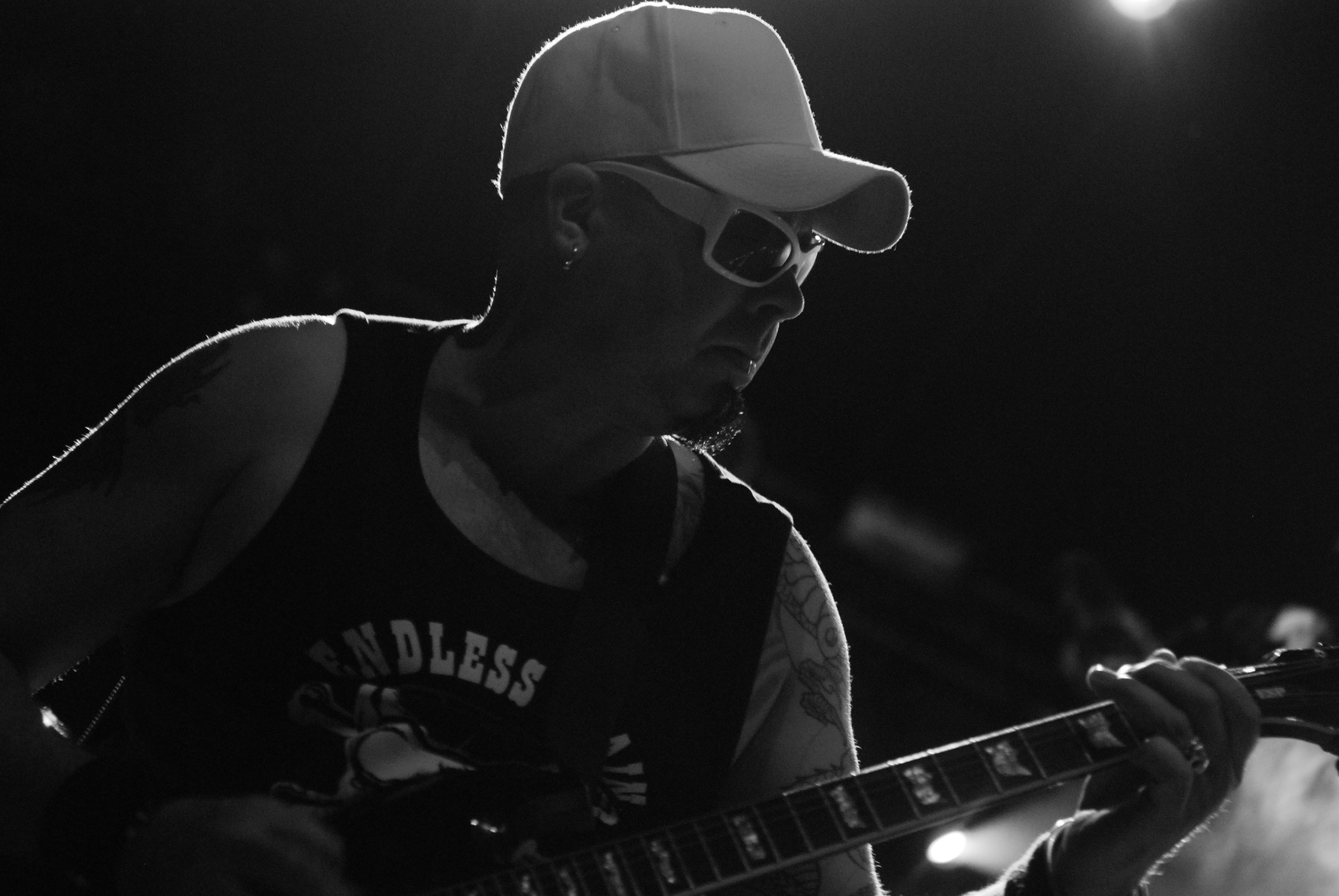 This photo was made in cooperation with CASTLE PARTY PRODUCTIONS in Bolków (webpage)